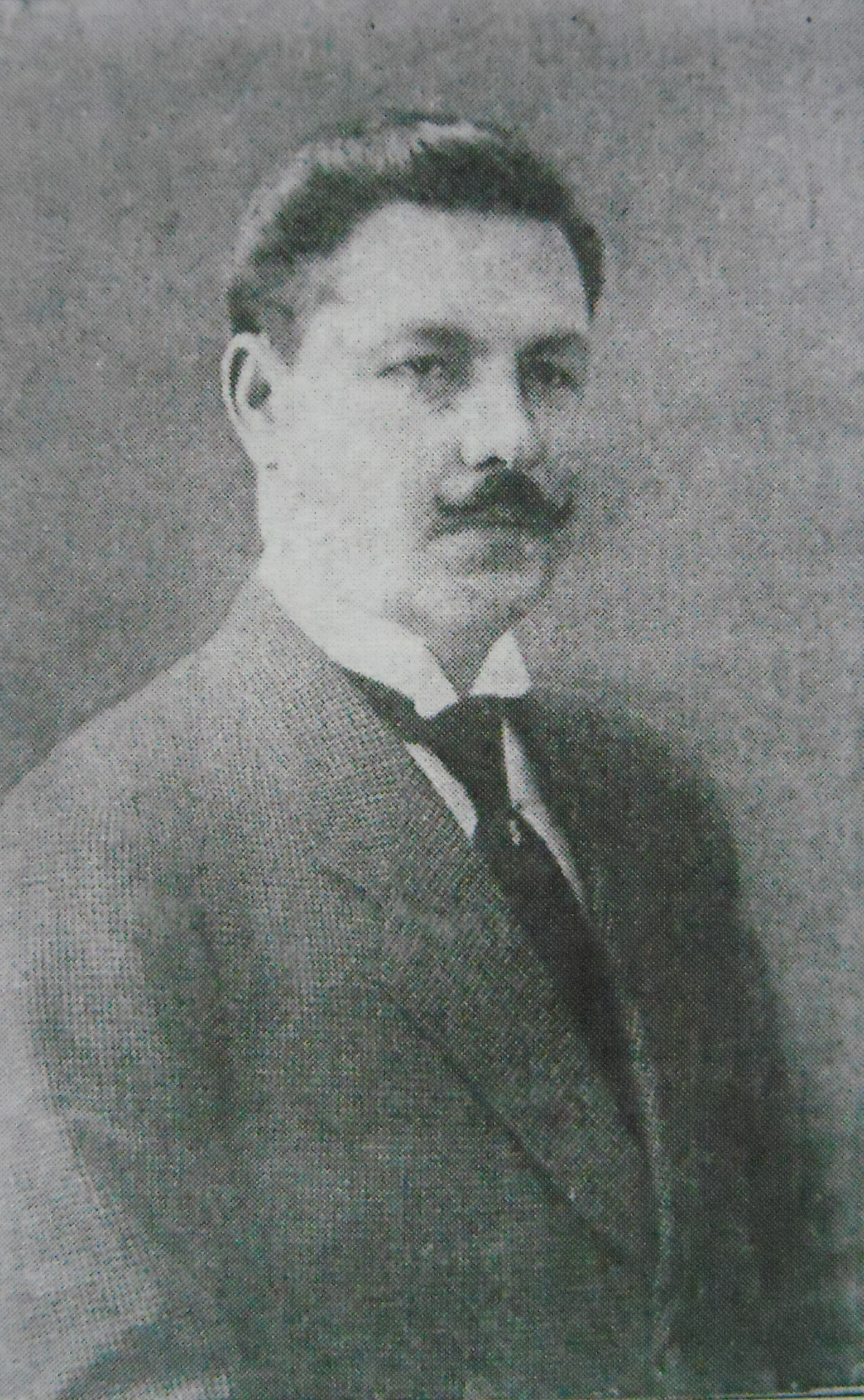 bulgarian revolutionary/ies